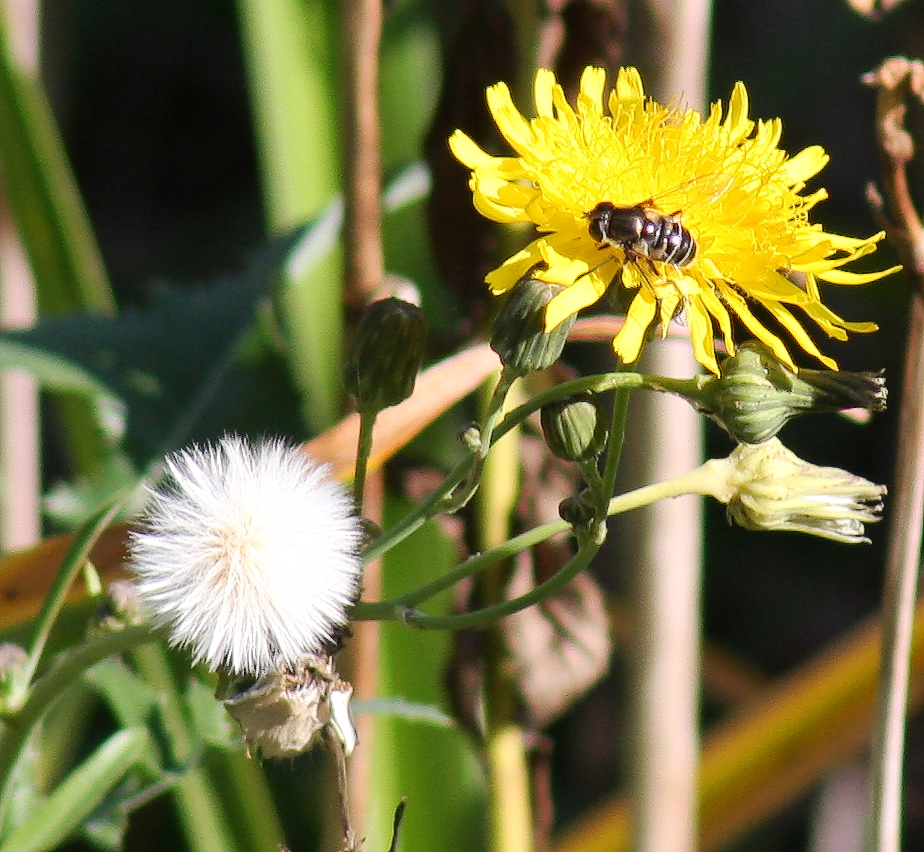 Self made image of Hawkbeard, showing flower head and seed heads.